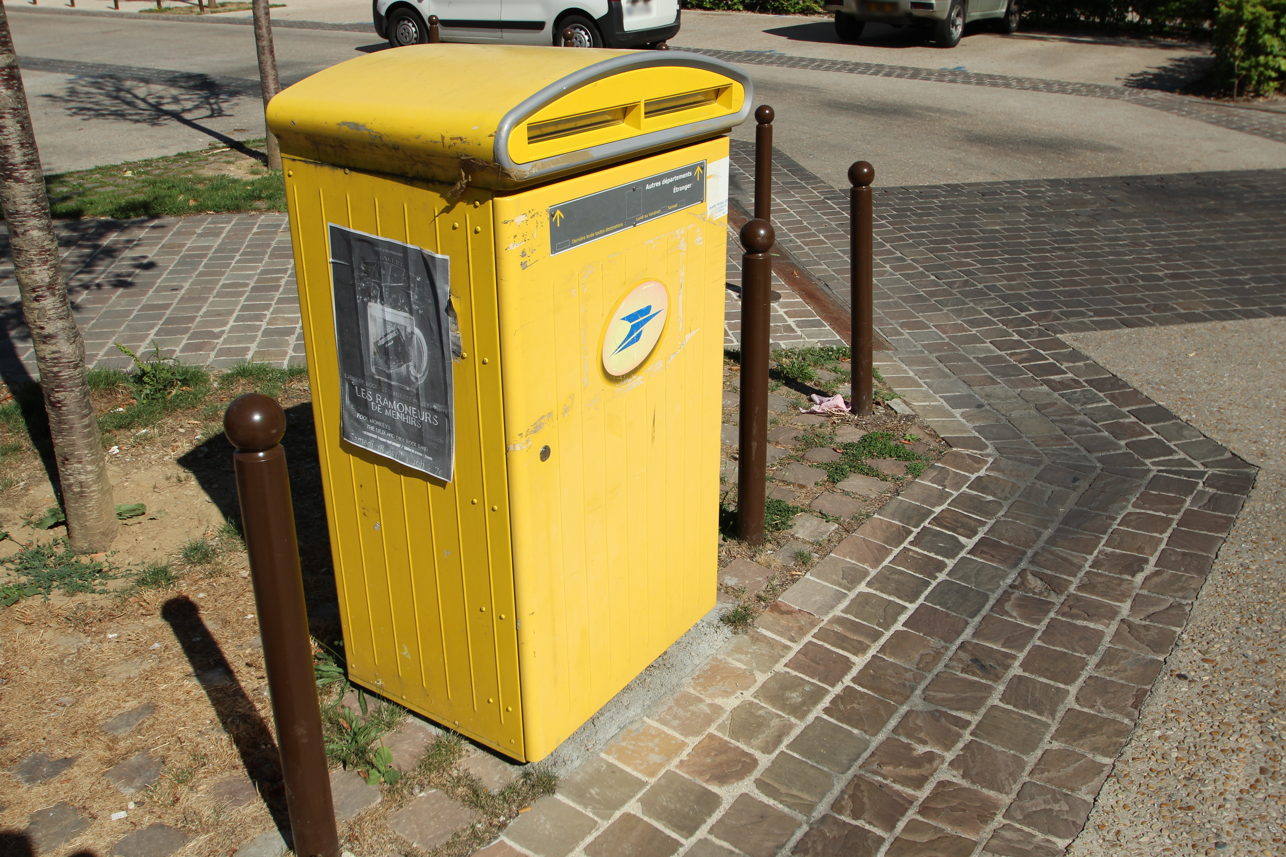 Chevry quarter in Gif-sur-Yvette, France. This image was uploaded as part of L'Été des villes 2015.